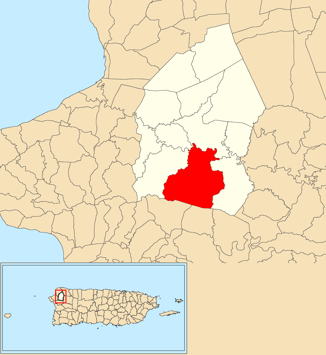 Cerro Gordo, Moca, Puerto Rico locator map